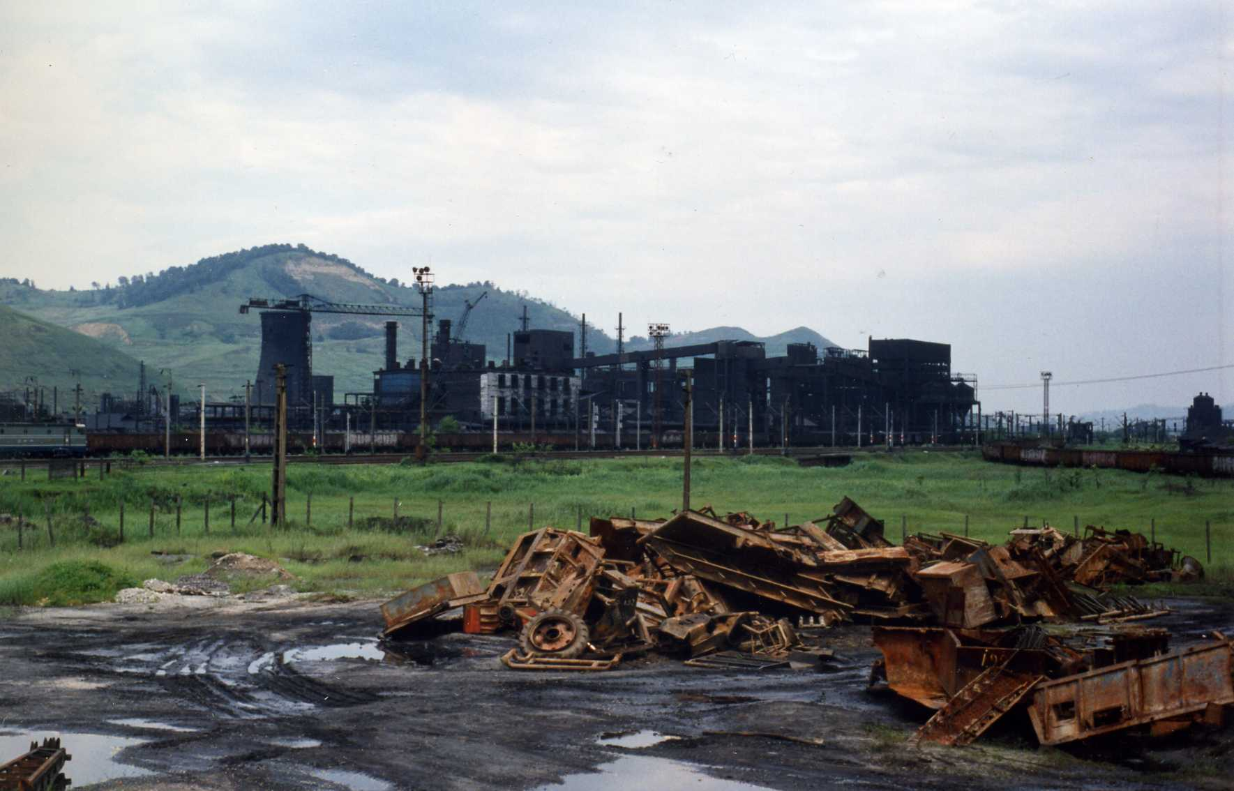 Carbosin plant, Copşa Mică, Romania, May 1996; derelict since 1993